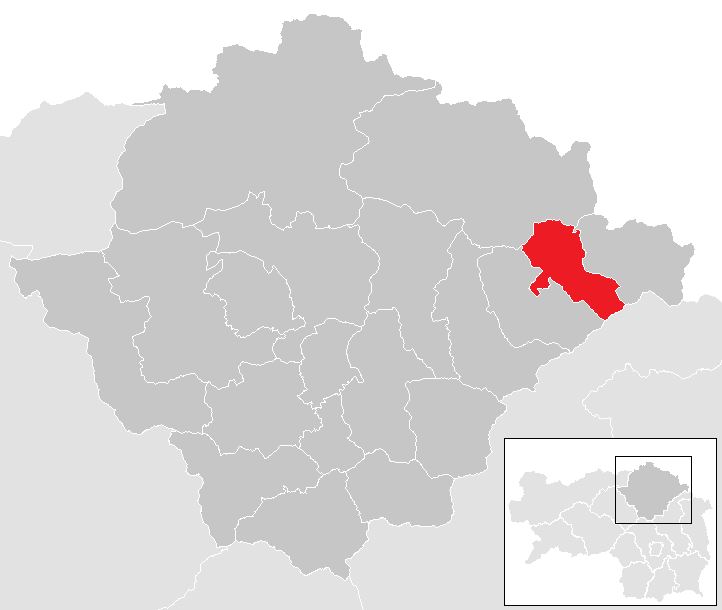 district Bruck-Mürzzuschlag